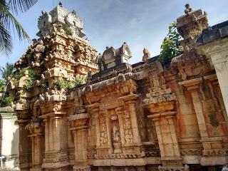 Pullamangai temple, Thanjavur district, Tamilnadu புள்ளமங்கை கோயில், தஞ்சாவூர் மாவட்டம்